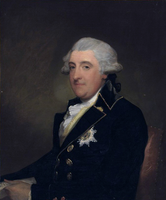 Portrait of William FitzGerald, 2nd Duke of Leinster (1749-1804), half-length, wearing the Order of St. Patrick